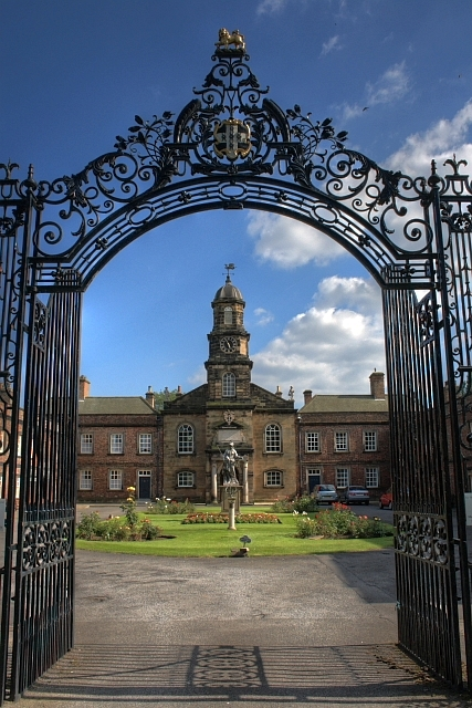 Sir William Turner's Almshouses, near to Kirkleatham, Redcar And Cleveland, Great Britain. Founded in 1676 and continuously in use as sheltered accommodation for retired people ever since. The range comprises twenty five almshouses.